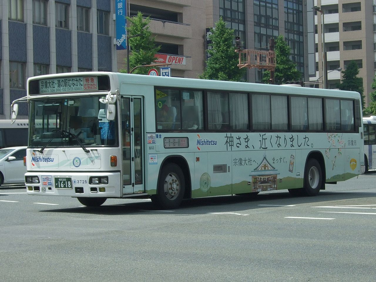 Nishitetsu Bus express bus "Munakata" Company:Nishi-Nippon Railroad Use:transit bus Belongs to:Akama Depot Car license:FOF200 KA 1618 Code:3725 Chassis manufacturer:Mitsubishi Motors Coachbuilder:Nishinippon Shatai Kogyo Location:in Chuo Ward, Fukuoka City, Fukuoka, Japan.